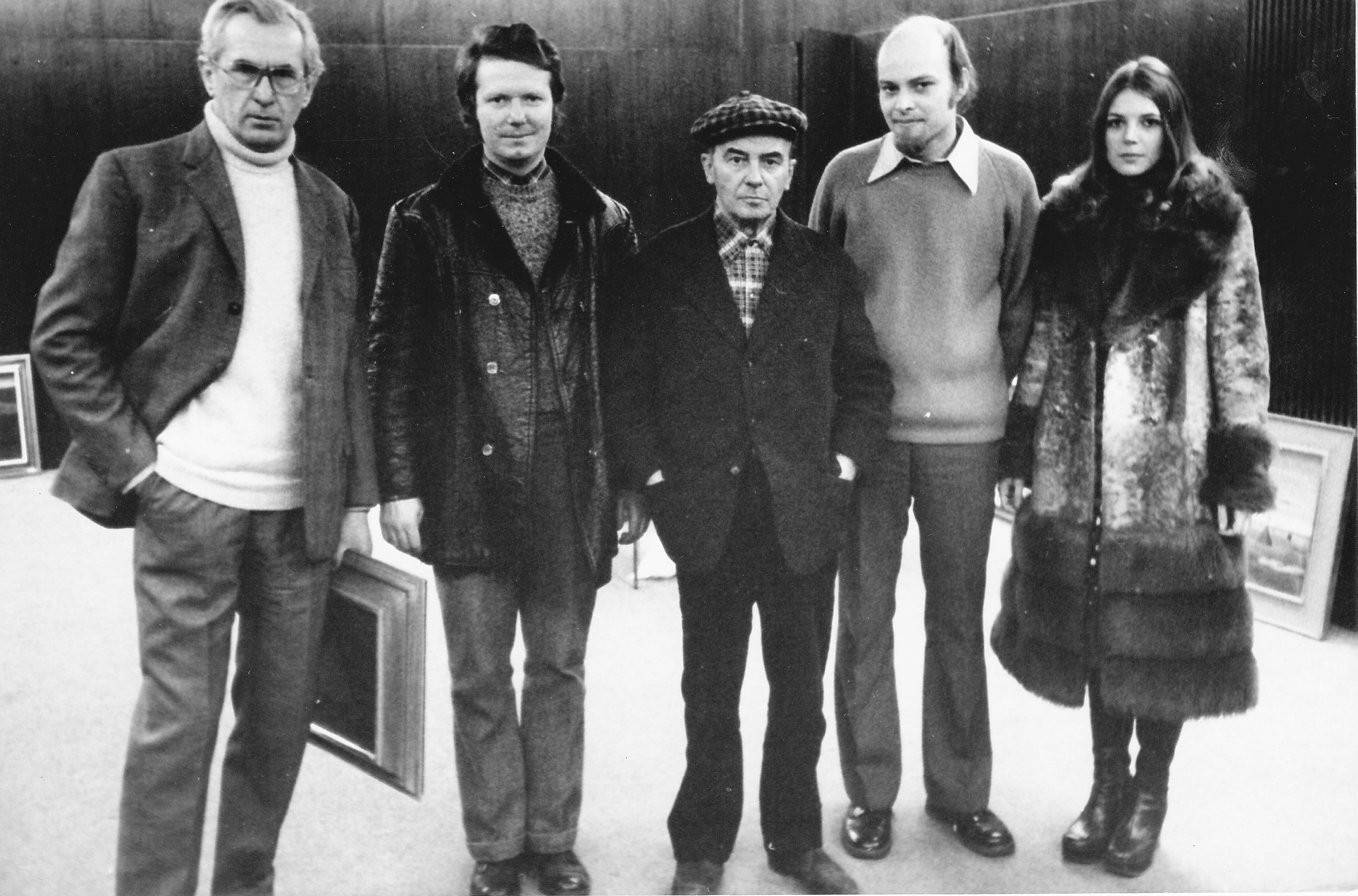 František Dvořák, Karel Sýs, Kamil Lhoták, Jaromír Pelc and his wife Tamara, 1976